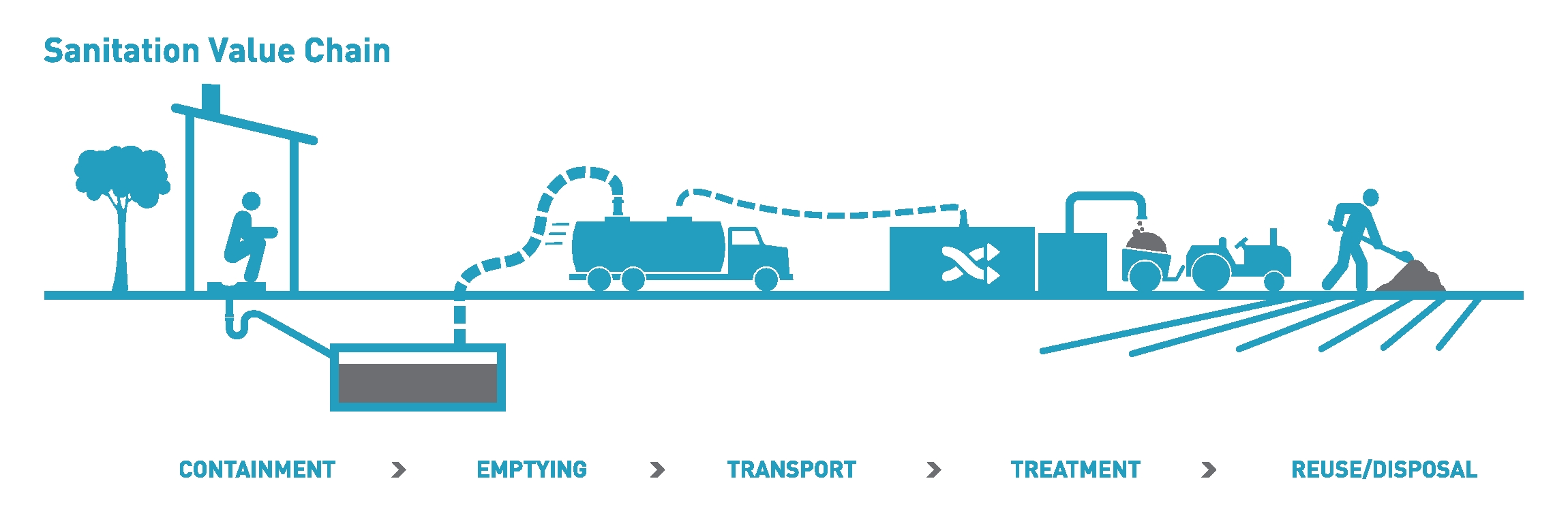 The scheme shows the value chain of excreta: containment, emptying, transport, treatment, reuse or disposal. It is used to illustrate the Water, Sanitation and Hygiene (WSH) program of the Gates Foundation. The idea is to recover resources and to improve sanitation in areas with no centralized sewerage systems in order to contribute to sustainable sanitation services for the poor.